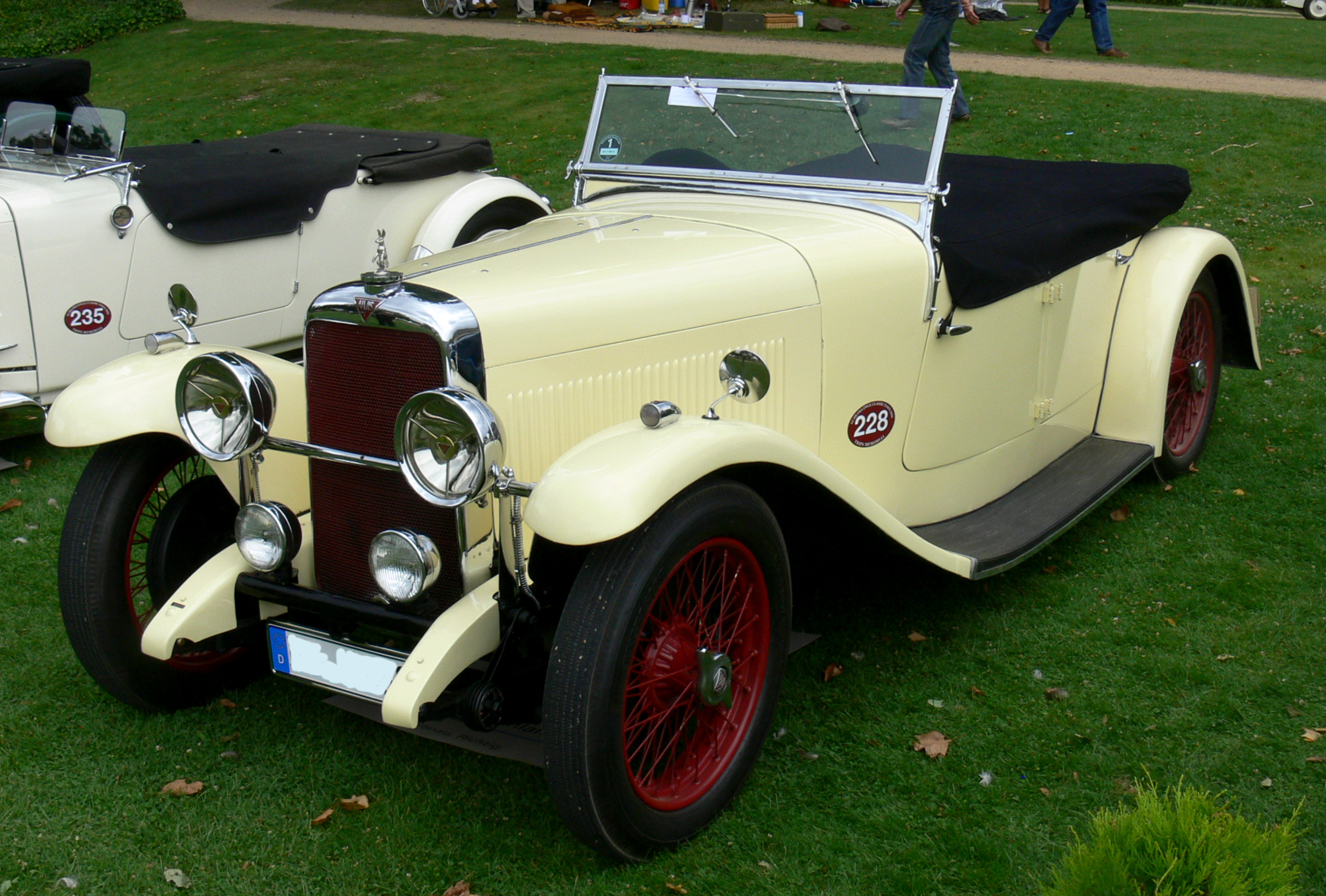 Alvis Firefly (1932) at Dyck Castle, Germany